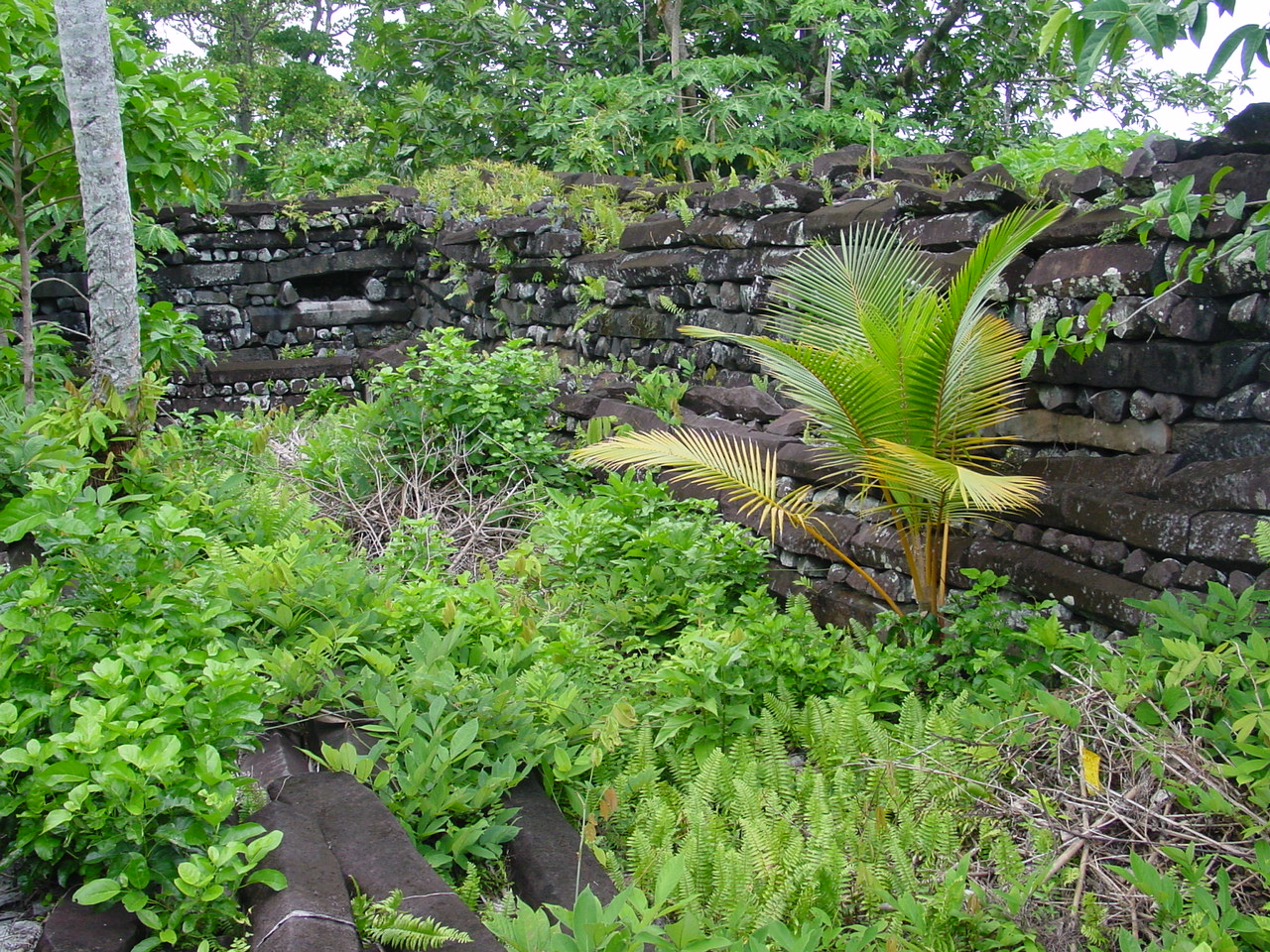 Nan Madol ruins in Pohnpei